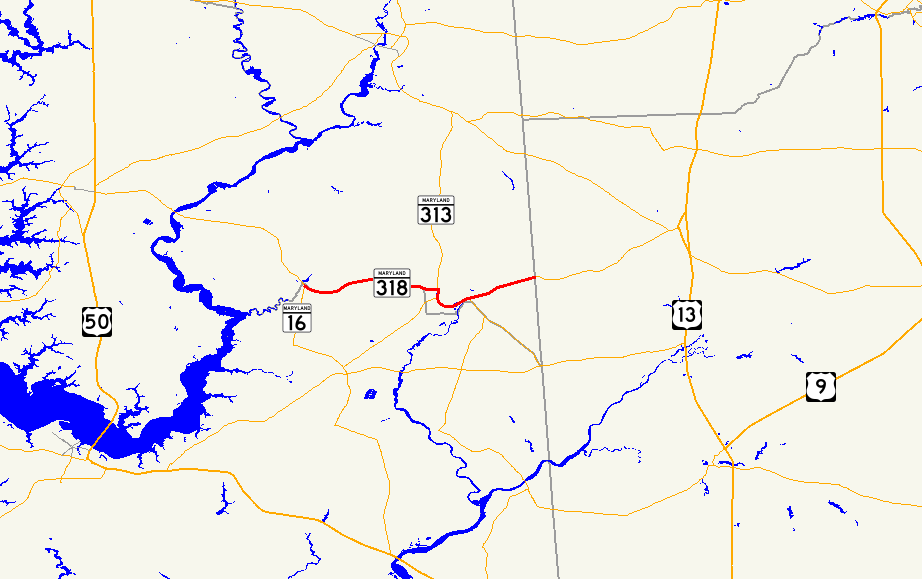 Map of Maryland Route 318